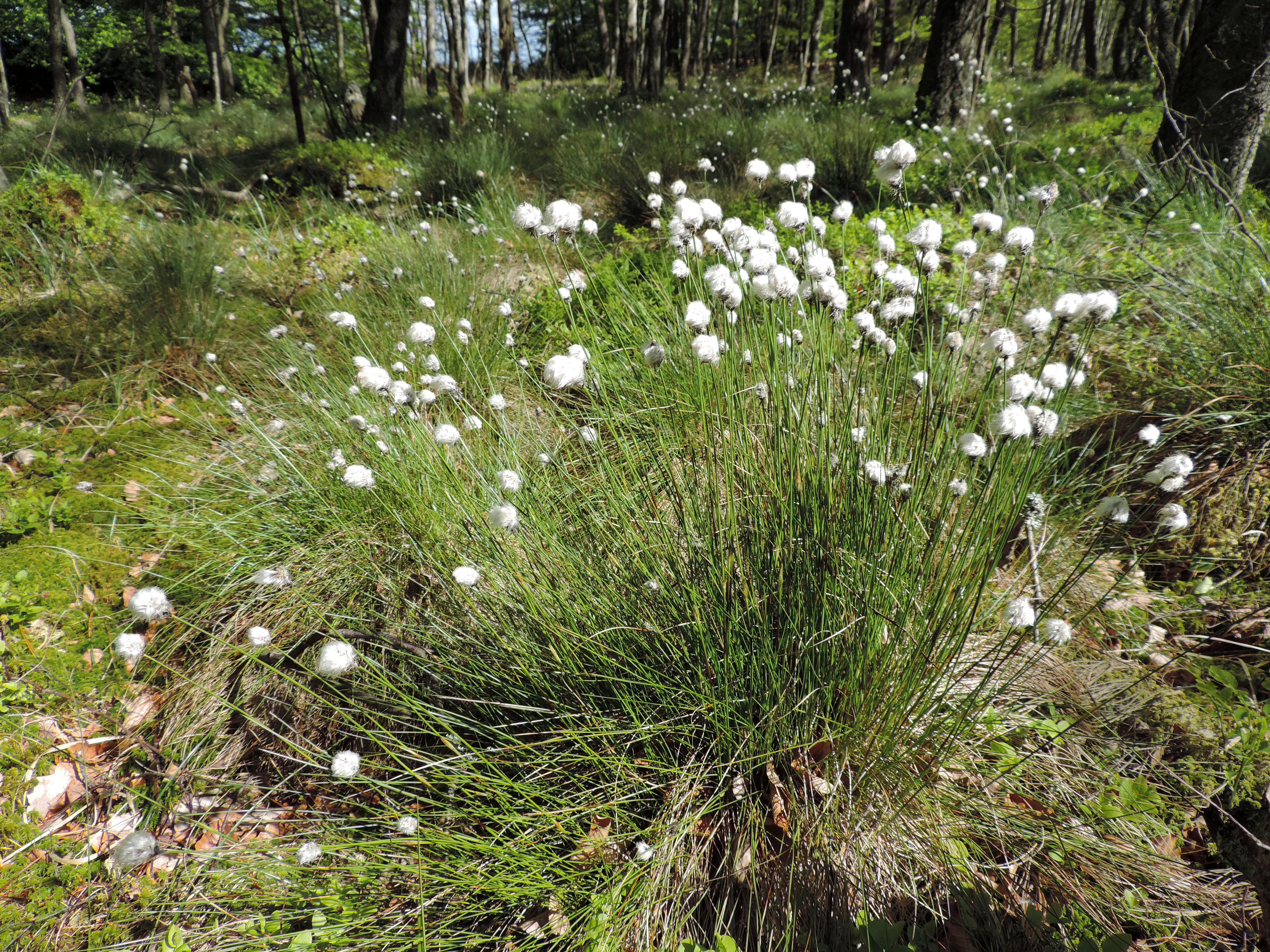 Eriophorum vaginatum near Gniewino, N Poland